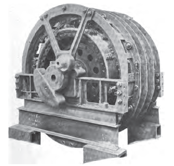 700 horsepower Brown-Boveri-Déri repulsion motor with 10 poles to be used with 16 2/3 Hz single phase voltage of 1250 V. Two of this kind of motors have been used in the French electric locomotive Midi E3301.